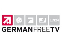 Logo of the German media company "German Free TV Holding" (2008-2010)